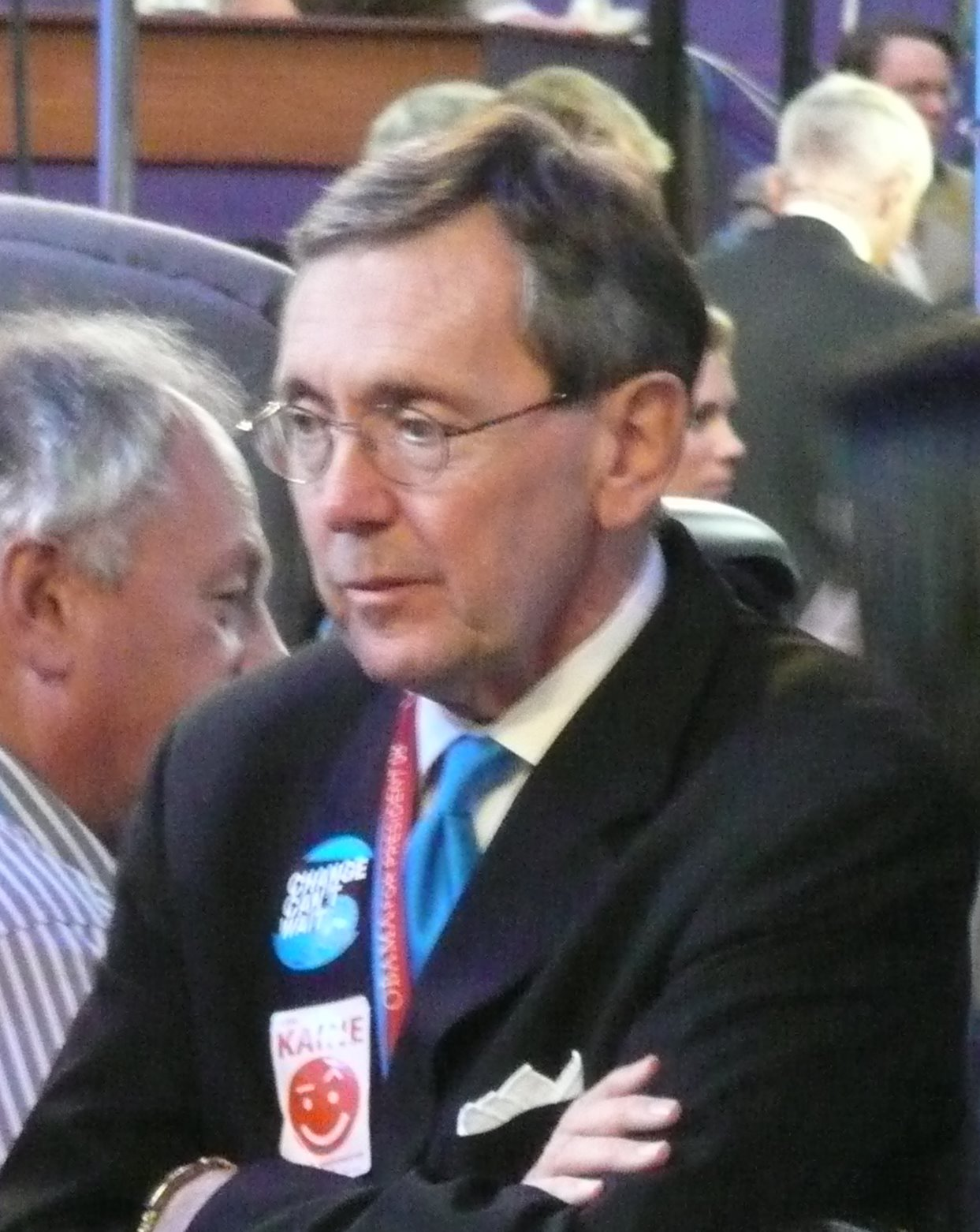 Photograph of C. Richard 'Dick' Cranwell at the 2008 Democratic National Convention, Denver, Colorado, 2008-08-27. Cropped and light level changed from original image.